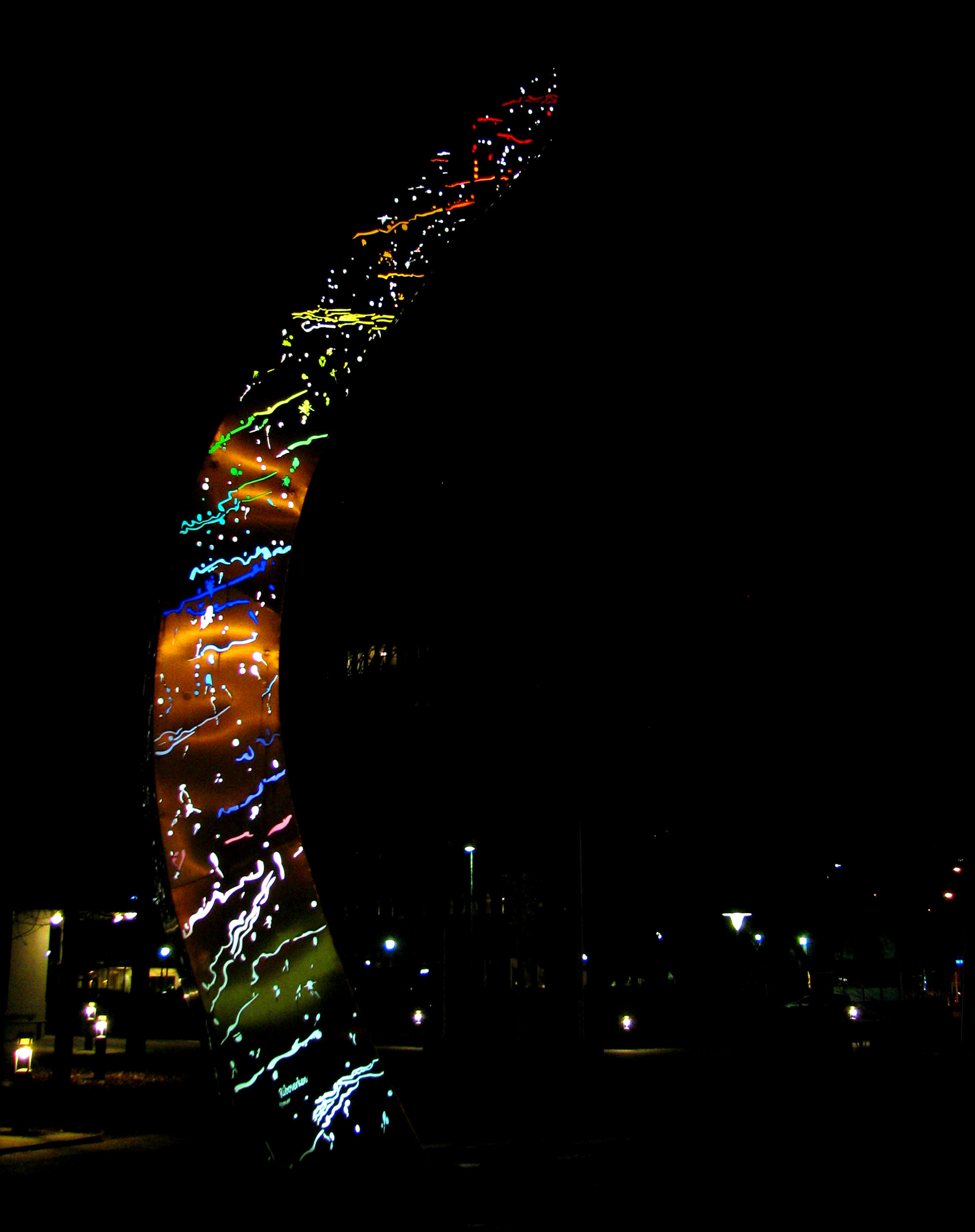 The stainless steel, glass and light sculpture RymdConfetti (space confetti) by Pia Hedström, placed near Ullevi stadium in Göteborg, Sweden